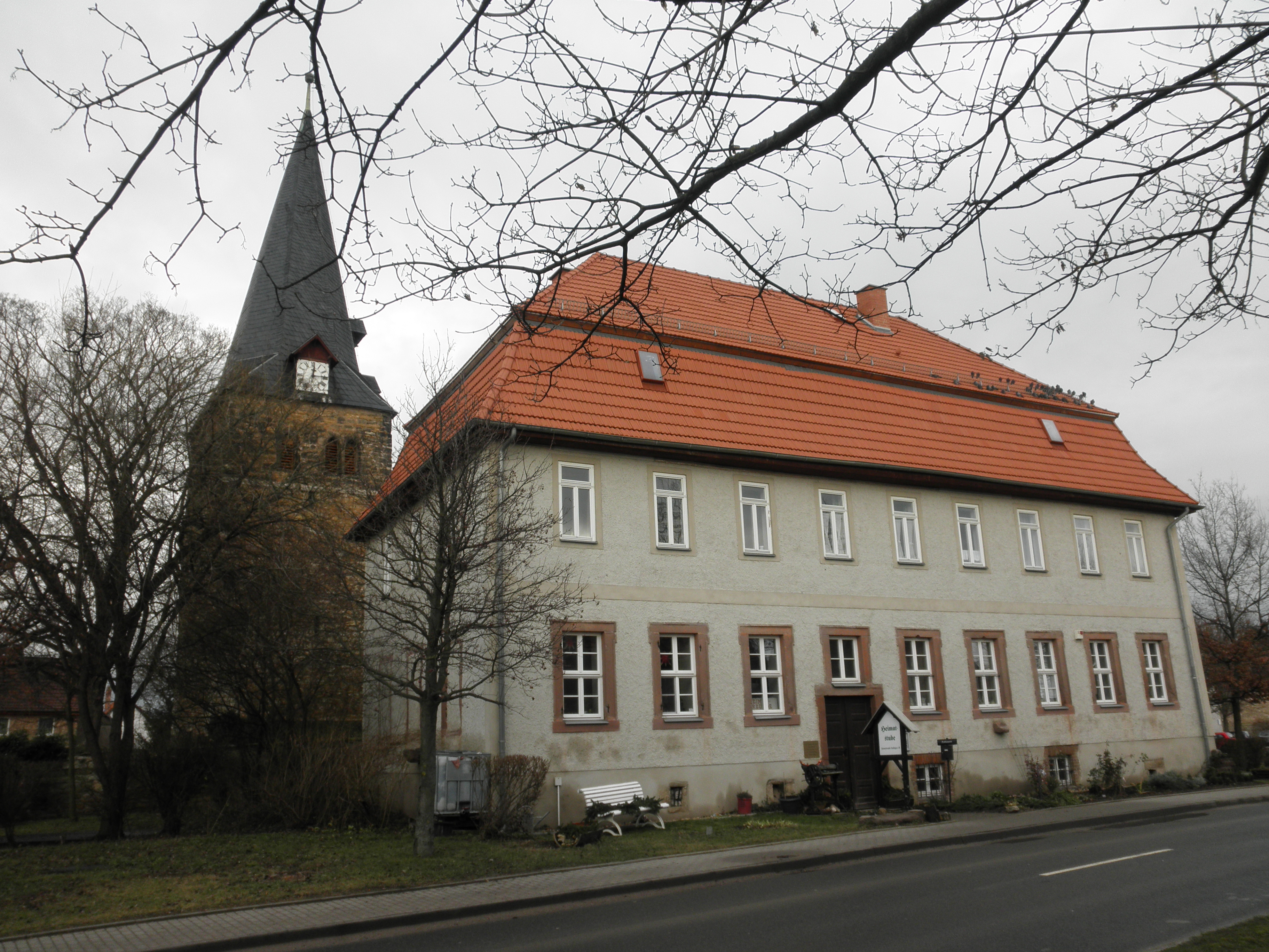 Museum in Leubingen (Sömmerda) in Thuringia